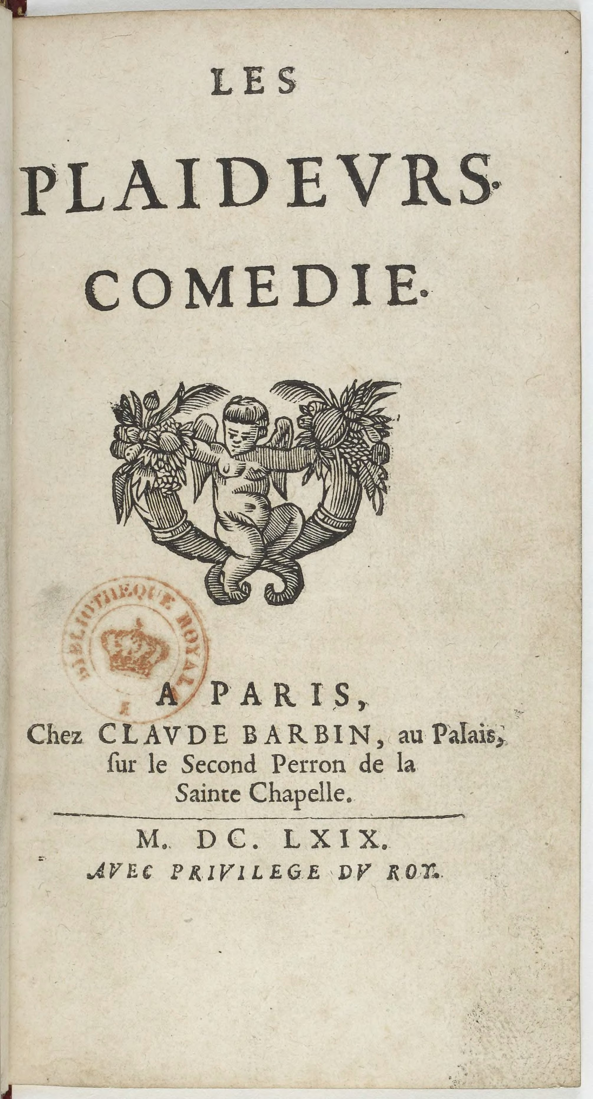 Frontispiece of the first edition of Les Plaideurs by Jean Racine, 1669